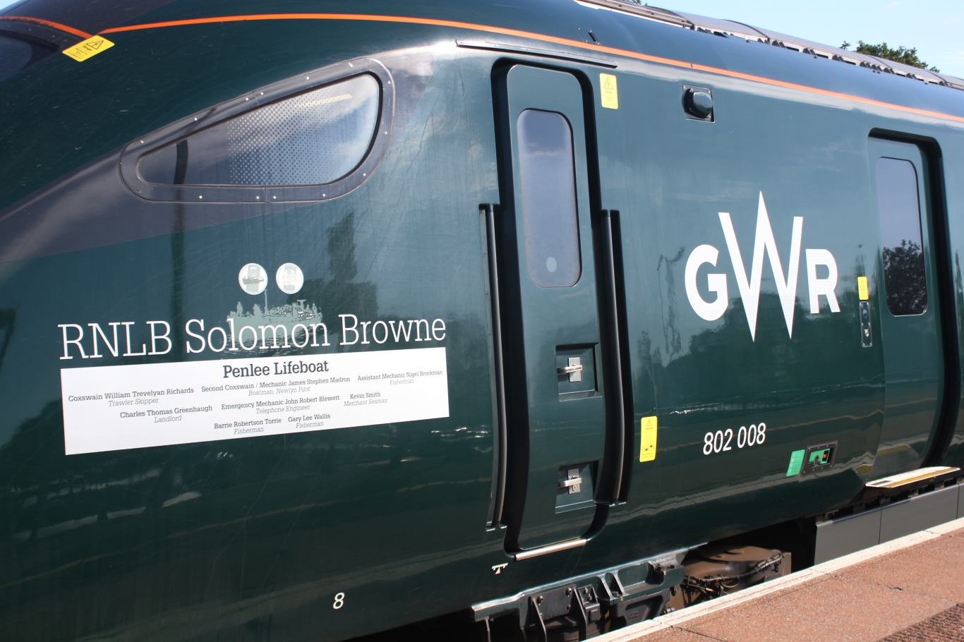 Great Western Railway has dedicated this car of 'InterCity Electric train' 802008 to the memory of the crew of the Penlee lifeboat Solomon Browne who died trying to rescue the crew and family from a coaster wrecked off the Cornish coast in 1981.